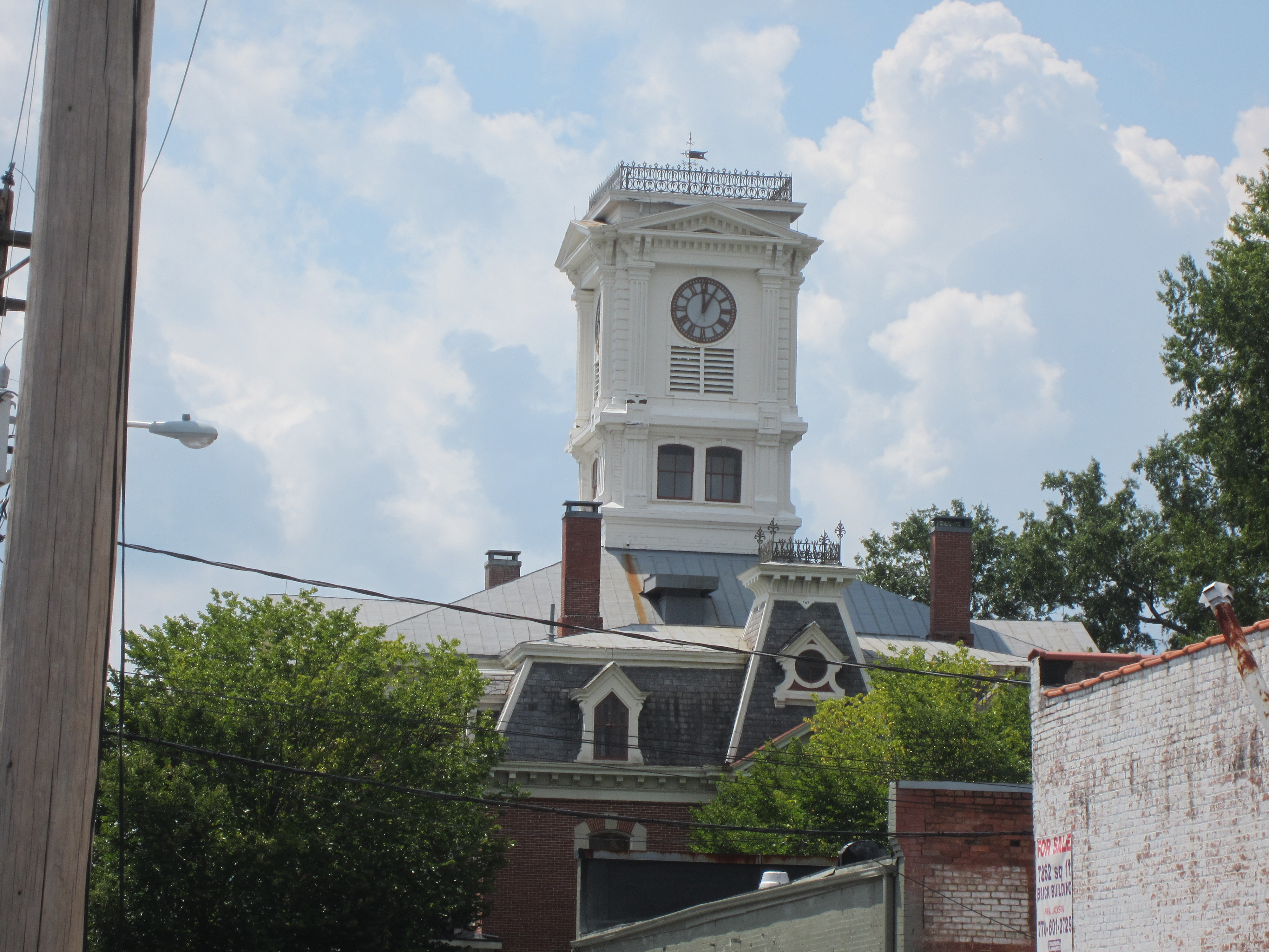 Walton County, Georgia courthouse